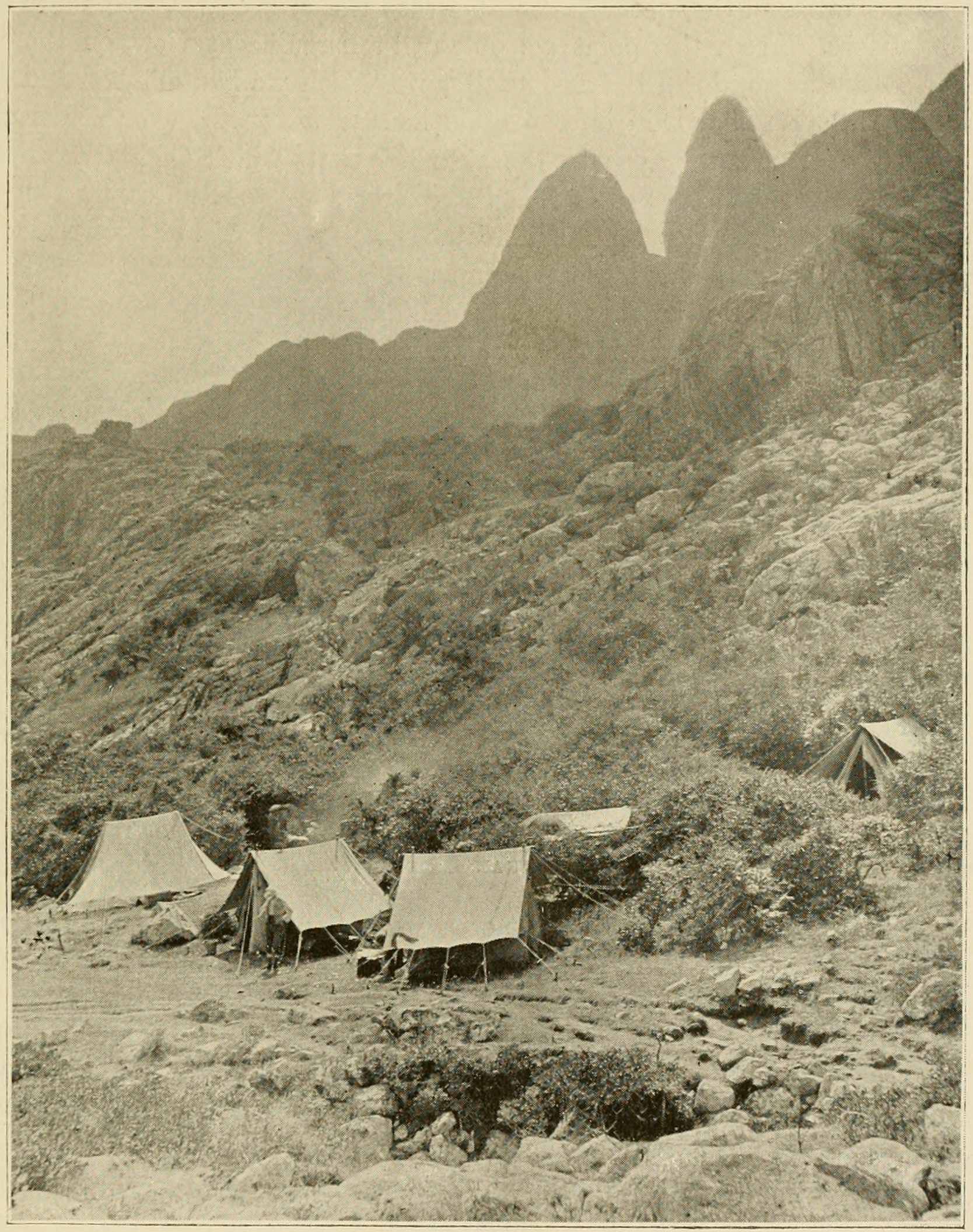 1899 photograph of a camp of the Liverpool Museum's 1898-99 expedition to Socotra, from The Natural History of Sokotra and Abd-el-Kuri